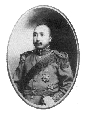 Zhang Fang